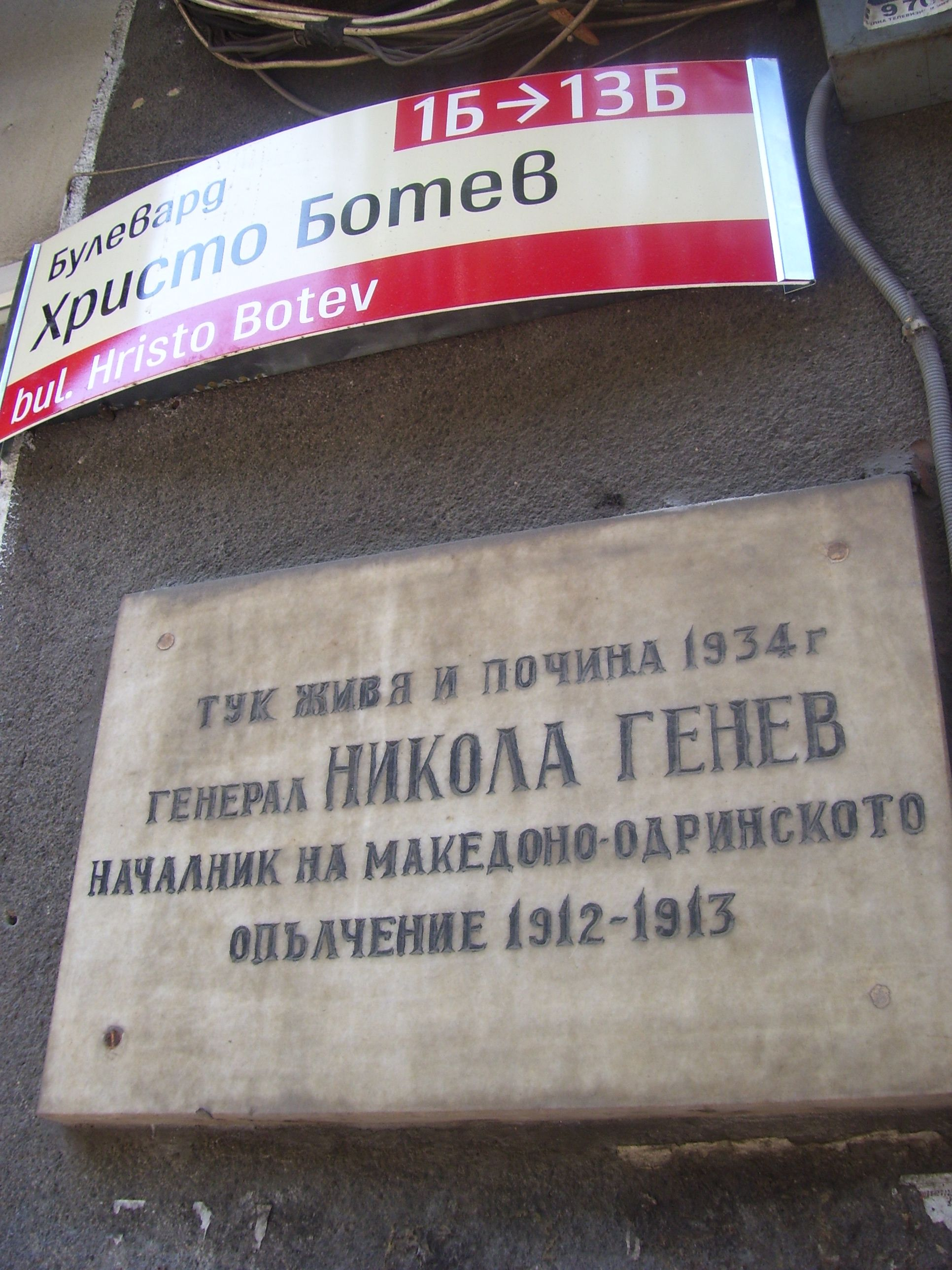 Memorial plaque in Sofia, Bulgaria, on the building where Nikola Genev lived.